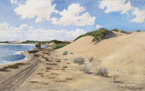 painting by Carl Locher of the Apostle, a rail coach in the form of a small horse-drawn carriage that carried mail and passengers from Frederikshavn to Skagen and back